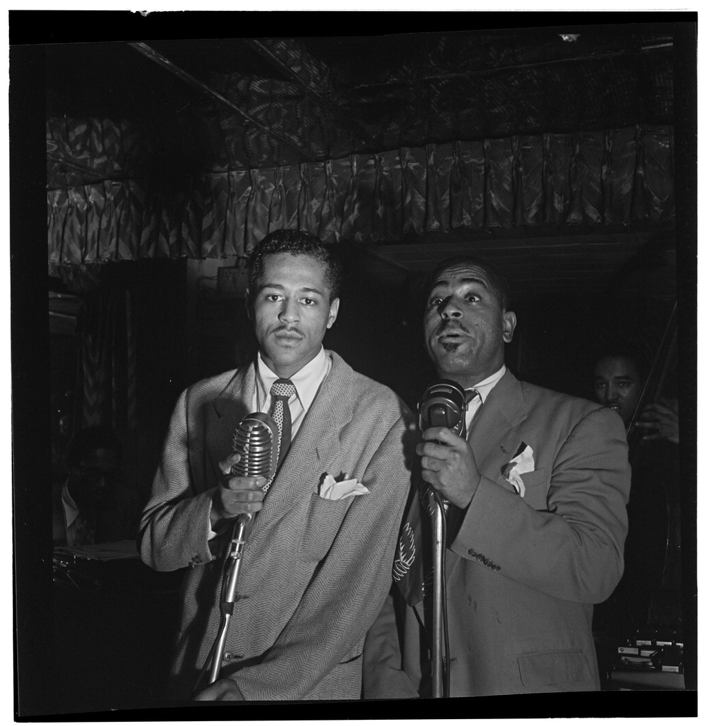 Gottlieb, William P., 1917-, photographer. Kenny Hagood and Dizzy Gillespie, Downbeat, New York, N.Y., between 1946 and 1948] 1 negative : b&w ; 2 1/4 x 2 1/4 in. Notes: Gottlieb Collection Assignment No. 523 Purchase William P. Gottlieb Forms part of: William P. Gottlieb Collection (Library of Congress). Subjects: Gillespie, Dizzy, 1917- Jazz musicians--1940-1950. Trumpet players--1940-1950. Jazz singers--1940-1950. Fifty-second Street (New York, N.Y.)--1940-1950. Downbeat Format: Portrait photographs--1940-1950. Cityscape photographs--1940-1950. Film negatives--1940-1950. Rights Info: Mr. Gottlieb has dedicated these works to the public domain, but rights of privacy and publicity may apply. Repository: (negative) Library of Congress, Prints & Photographs Division, Washington D.C. 20540 USA, Part Of: William P. Gottlieb Collection (DLC) 99-401005 General information about the Gottlieb Collection is available at Persistent URL: Call Number: LC-GLB23- 1198